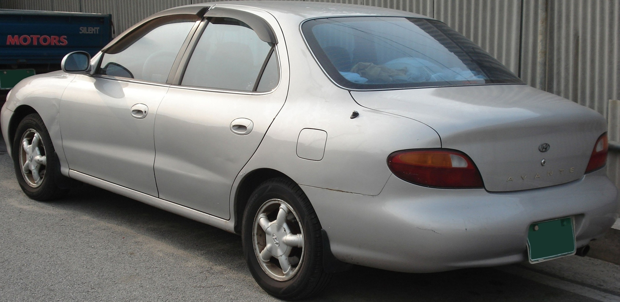 Hyundai Avante